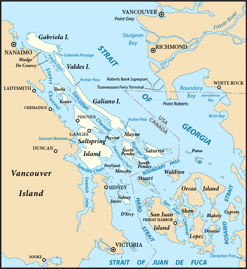 Map of the Gulf Islands (highlighted) and surrounding region, with the US-Canada border. Created with ArcExplorer and Adobe Illustrator. Based on on GeoBase and The National Map data. Map projection: Washington State Plane North (State Plane Coordinate System) Used same base map as with File:San Juan Islands map.png.